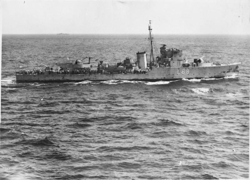 British destroyer HMS ERIDGE underway.